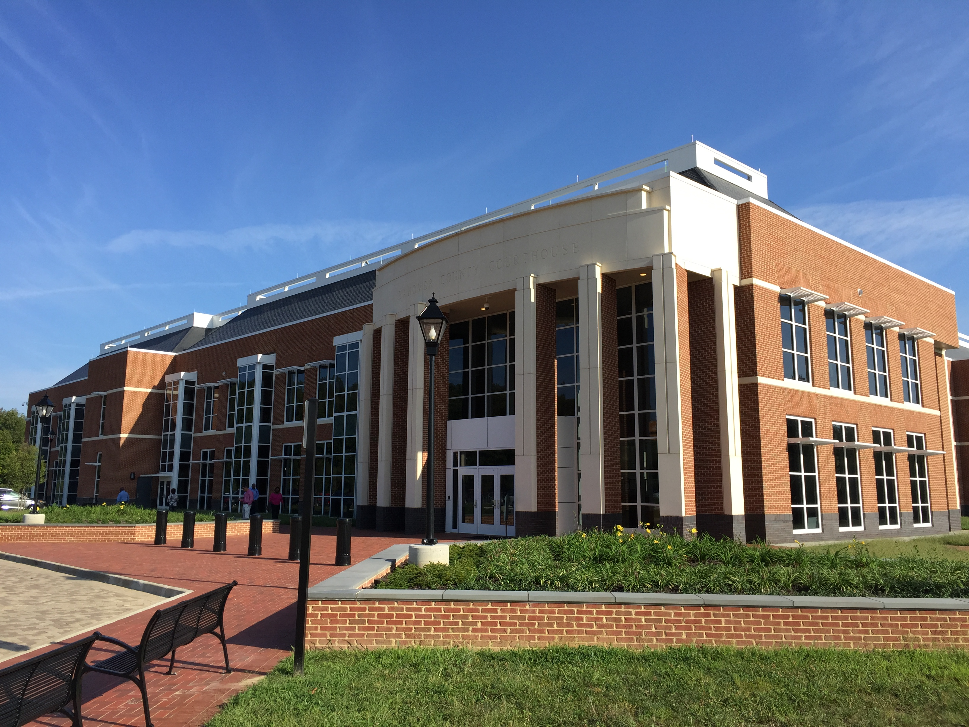 Hanover County VA new courthouse, 2017